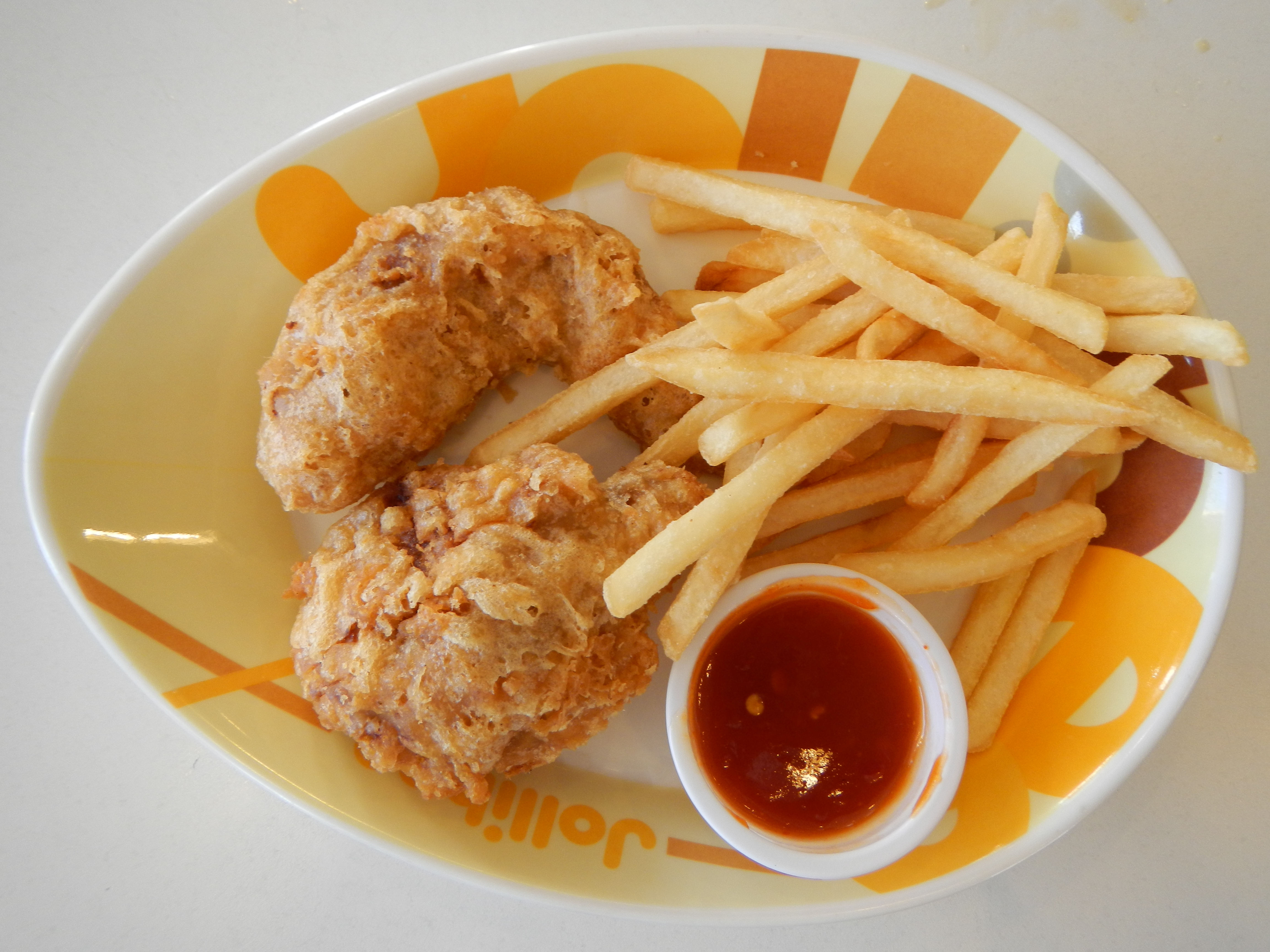 Crispy Chicken wings and fries